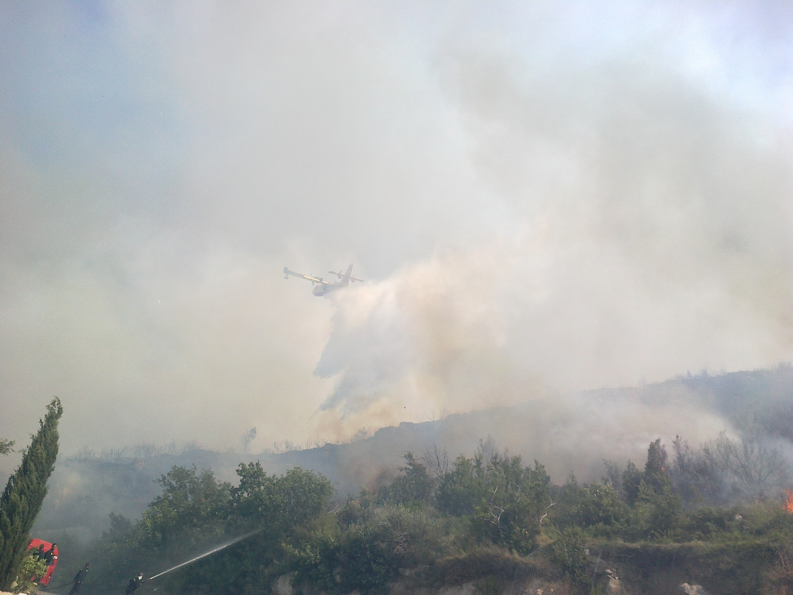 Firefiting with Canadair CL415 and road wehicles near Dubrovnik, Croatia